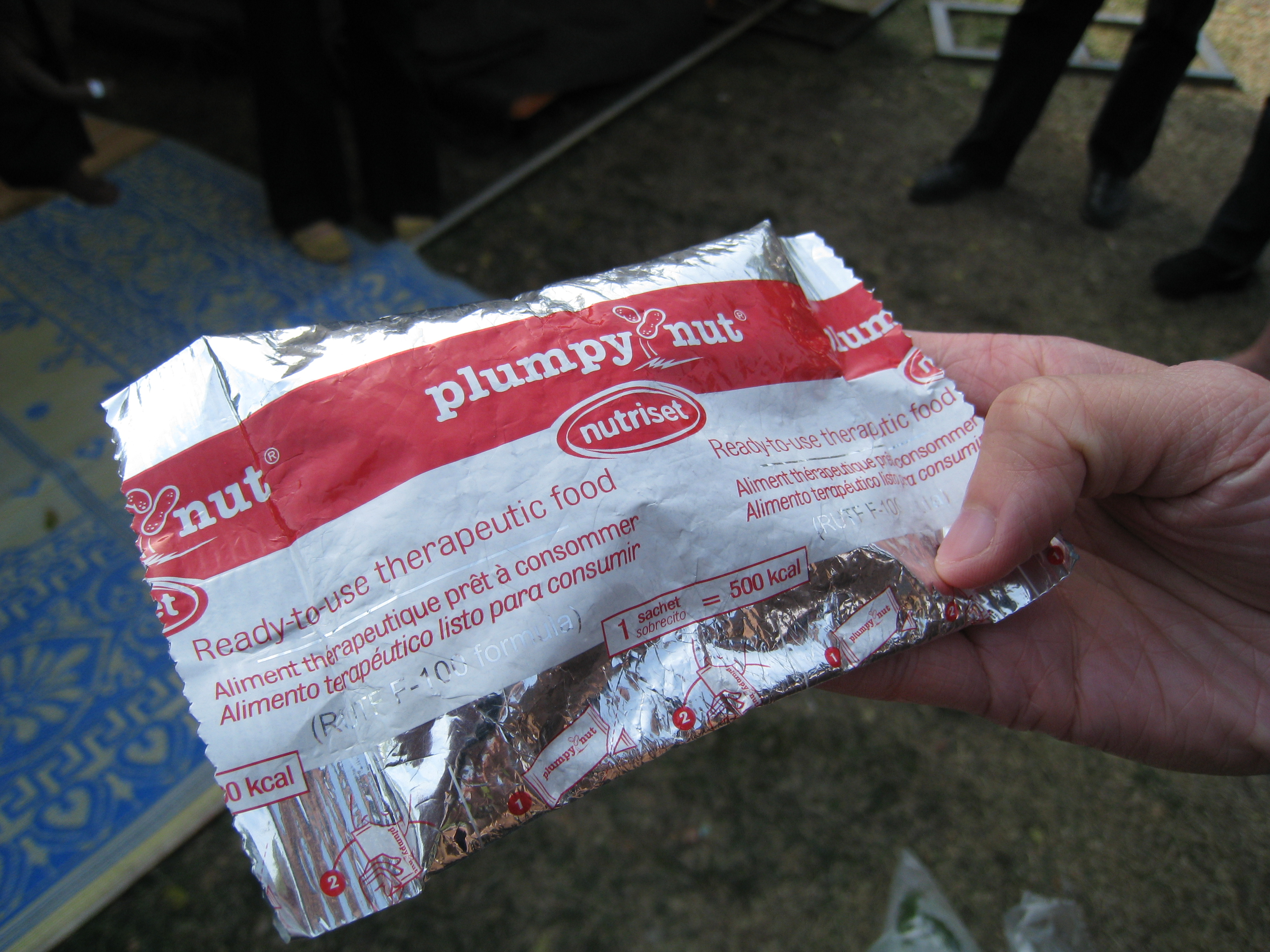 A pack of Plumpy'nut, a peanut-based "ready to use therapeutic food" used by humanitarian aid agencies to treat severe malnutrition in emergency situations and third-world countries